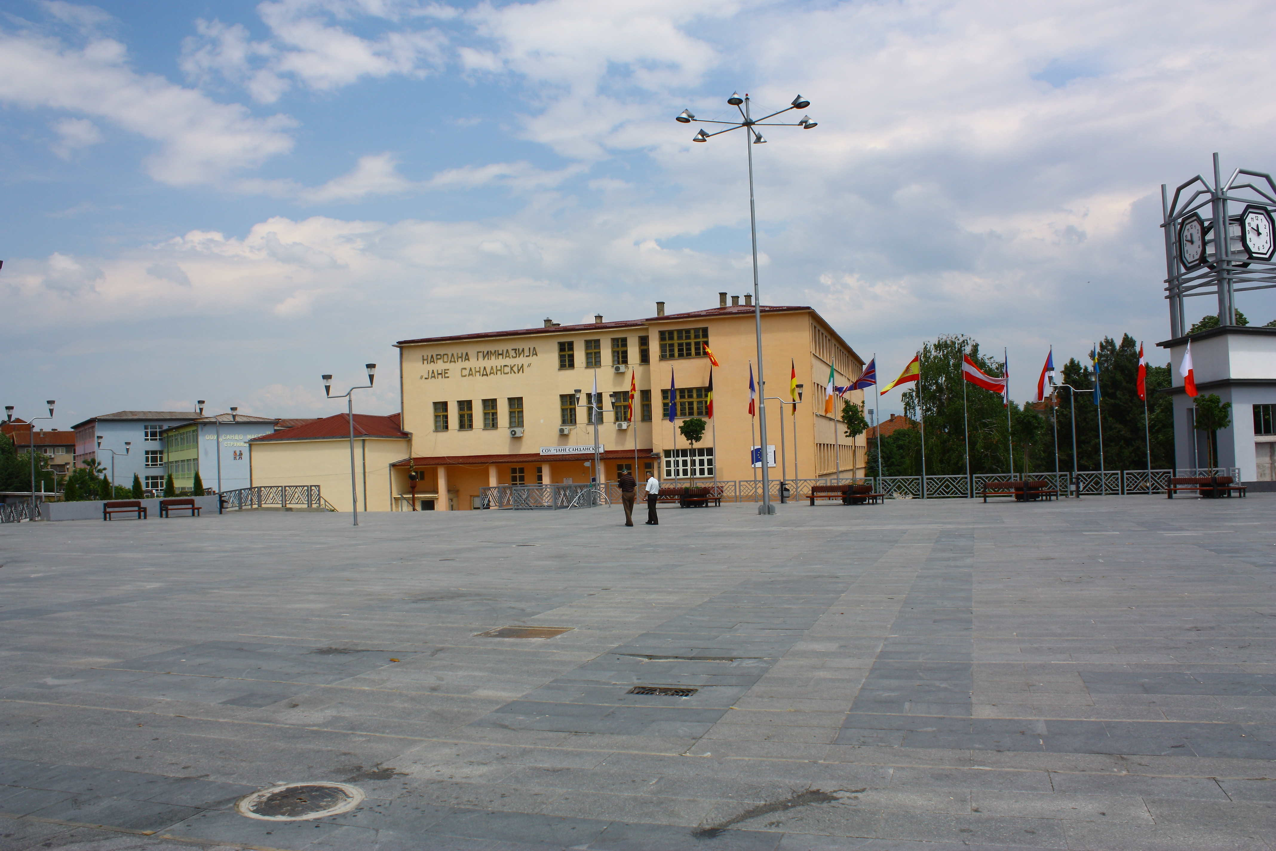 Strumica, Macedonia